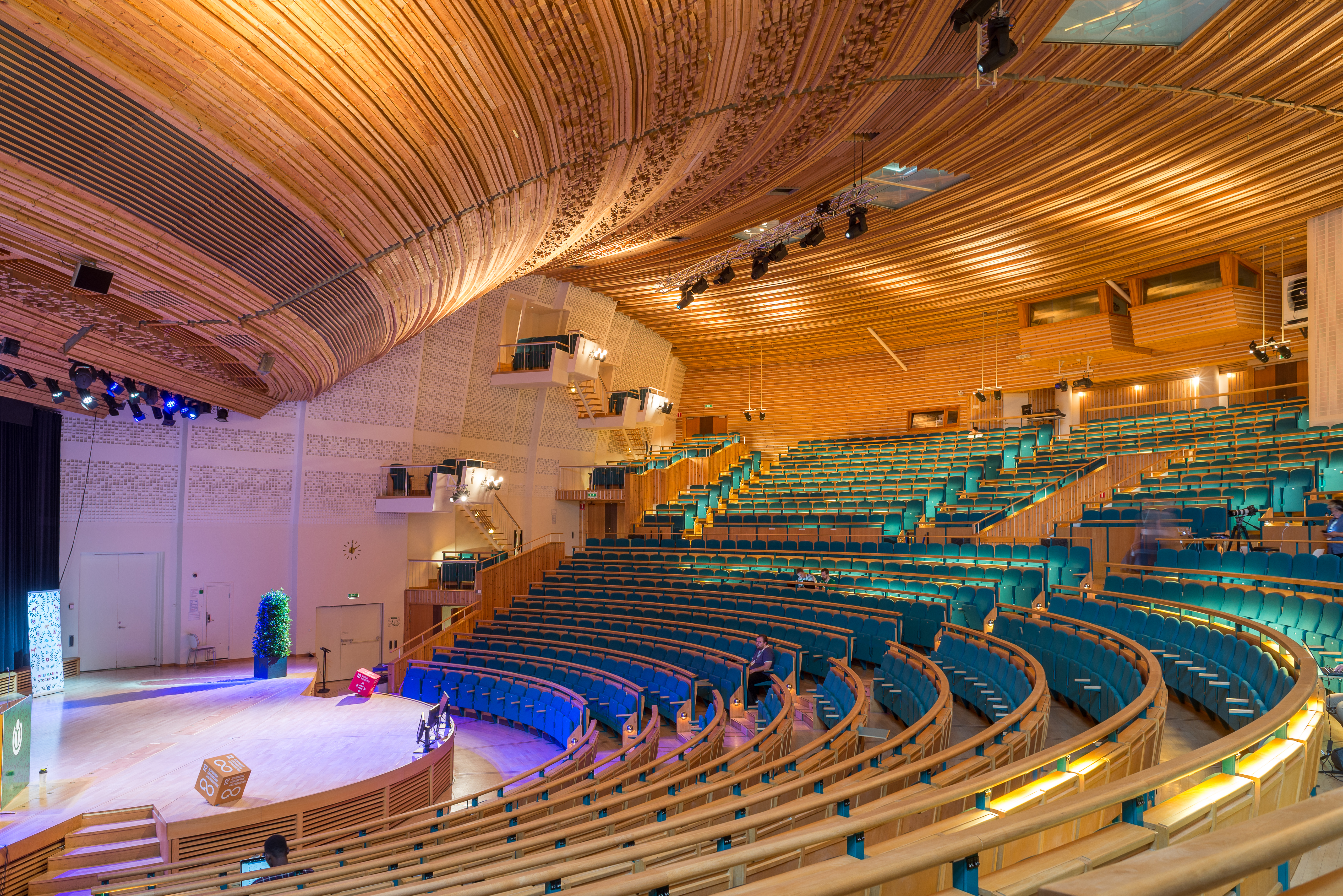 Aula Magna, Stockholm university.